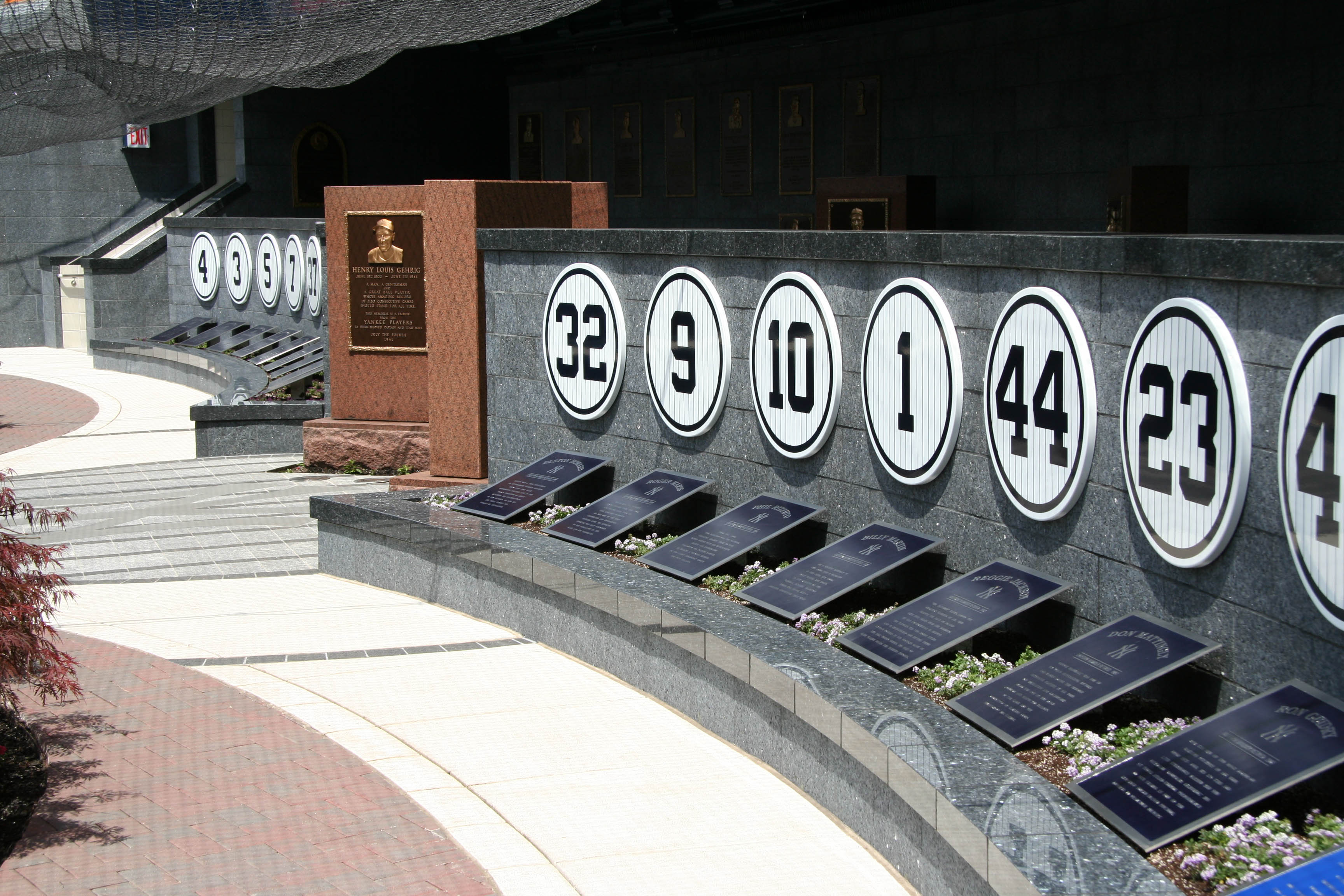 The Monument Park at Yankee Stadium, with the team's retired numbers exhibited.